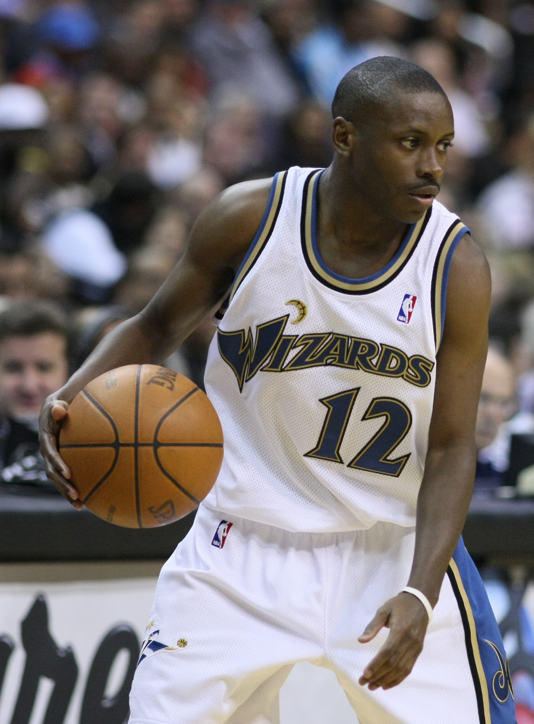 Earl Boykins playing with the Washington Wizards